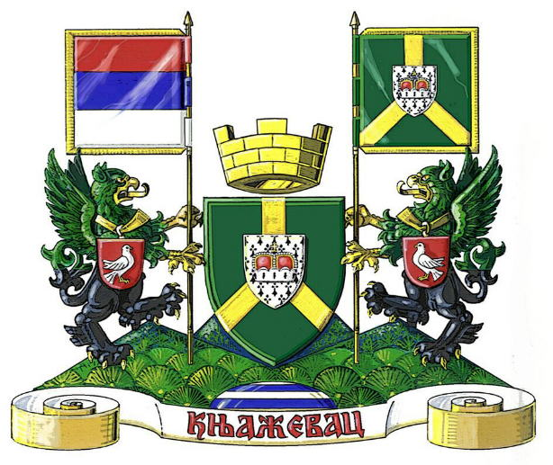 Coat of arms of Knjaževac, Serbia)Blason de la ville de Knjaževac, Serbie